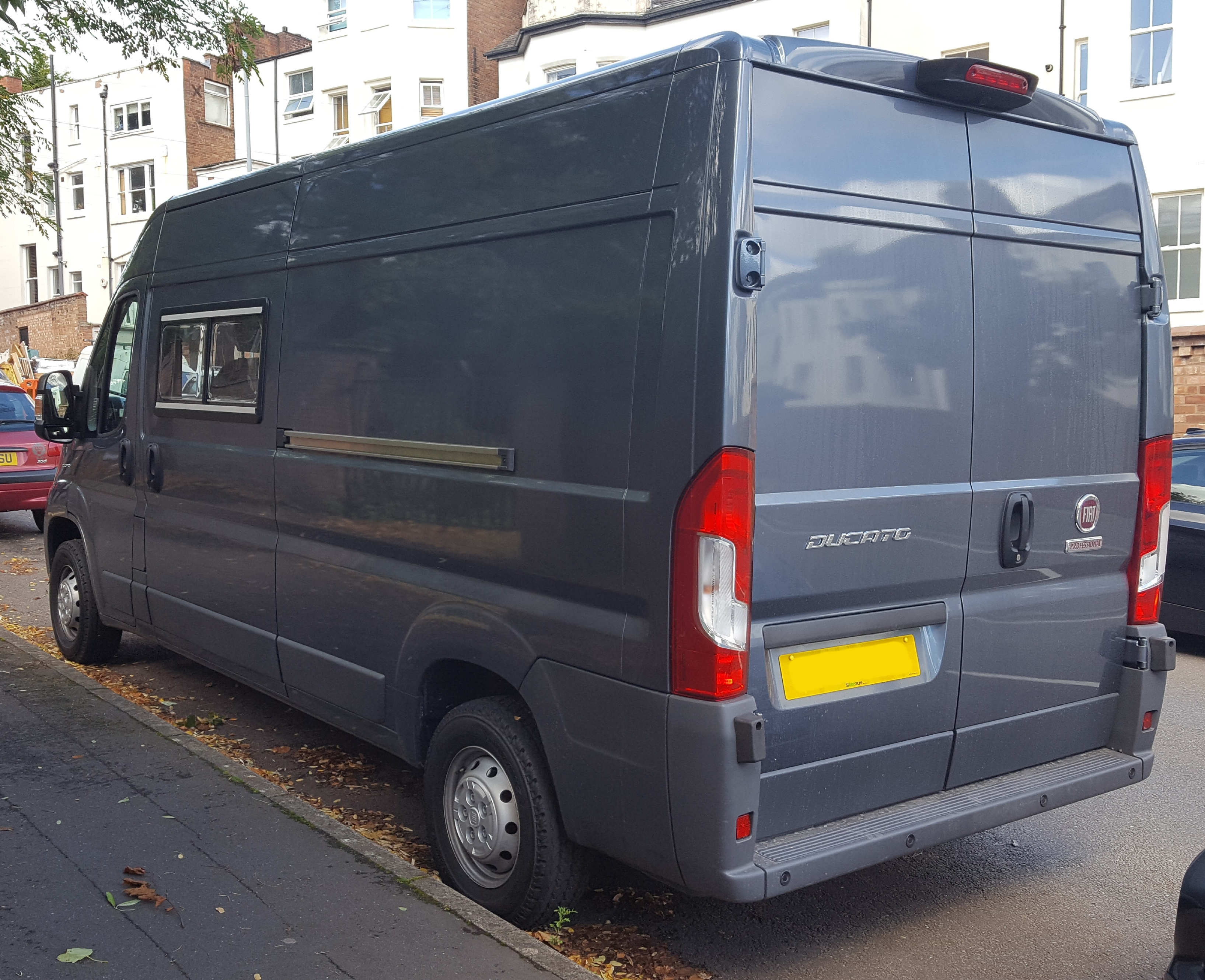 2017 Fiat Ducato 35 Multijet 2.3 Rear Taken in Leamington Spa